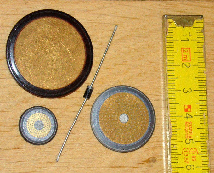 SCR power rectifiers top left: rectifier 1000 V/ 200 A; bottom left: SCR 1500 V / 20 A; right: SCR 1500 V /120 A; 1N4007 for comparison. The silicon plates are soldered on Wolfram (Tungsten) and covered with gold; the heatsink is not shown, because it is much bigger